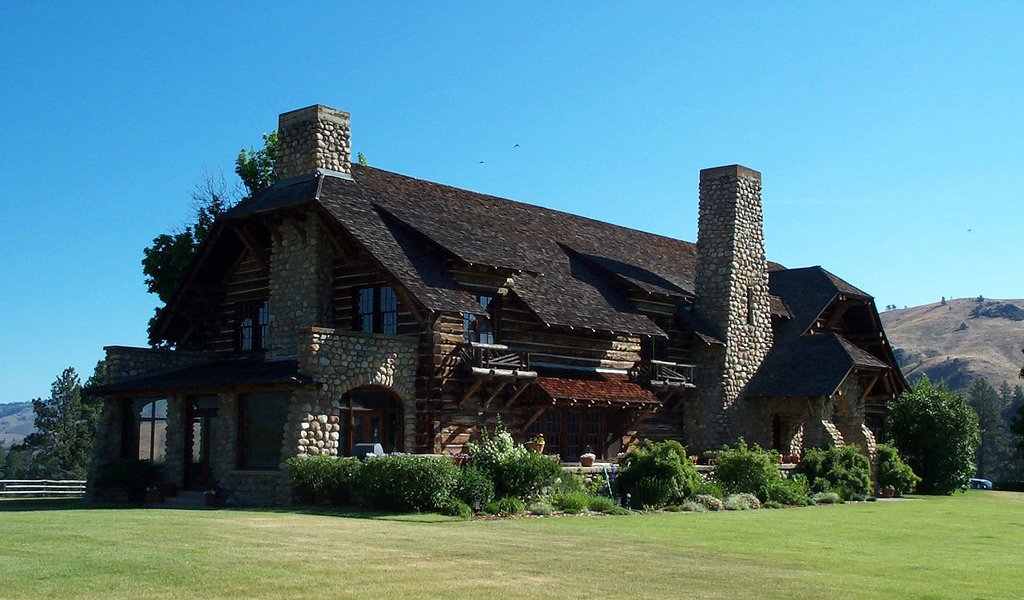 Photograph of Chief Joseph Ranch, once owned by Mel Pervais